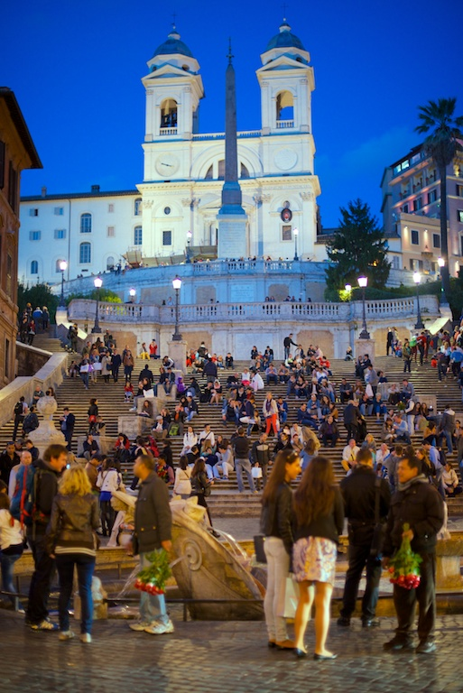 Spanish Steps, Rome.